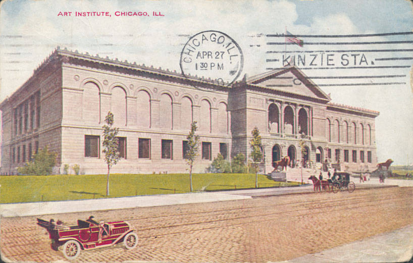 Art Institute, Chicago, Illinois